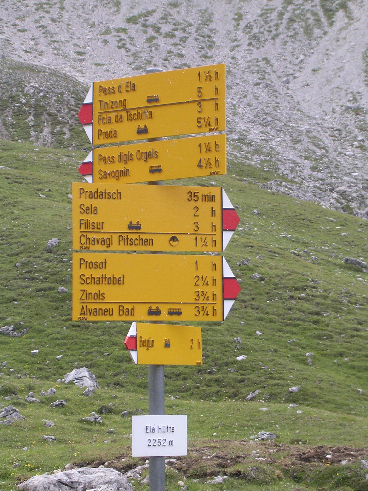 Fingerpost near Ela-Hütte, an alpine hut of the Swiss Alpine Club (SAC), Filisur, Grisons, Switzerland